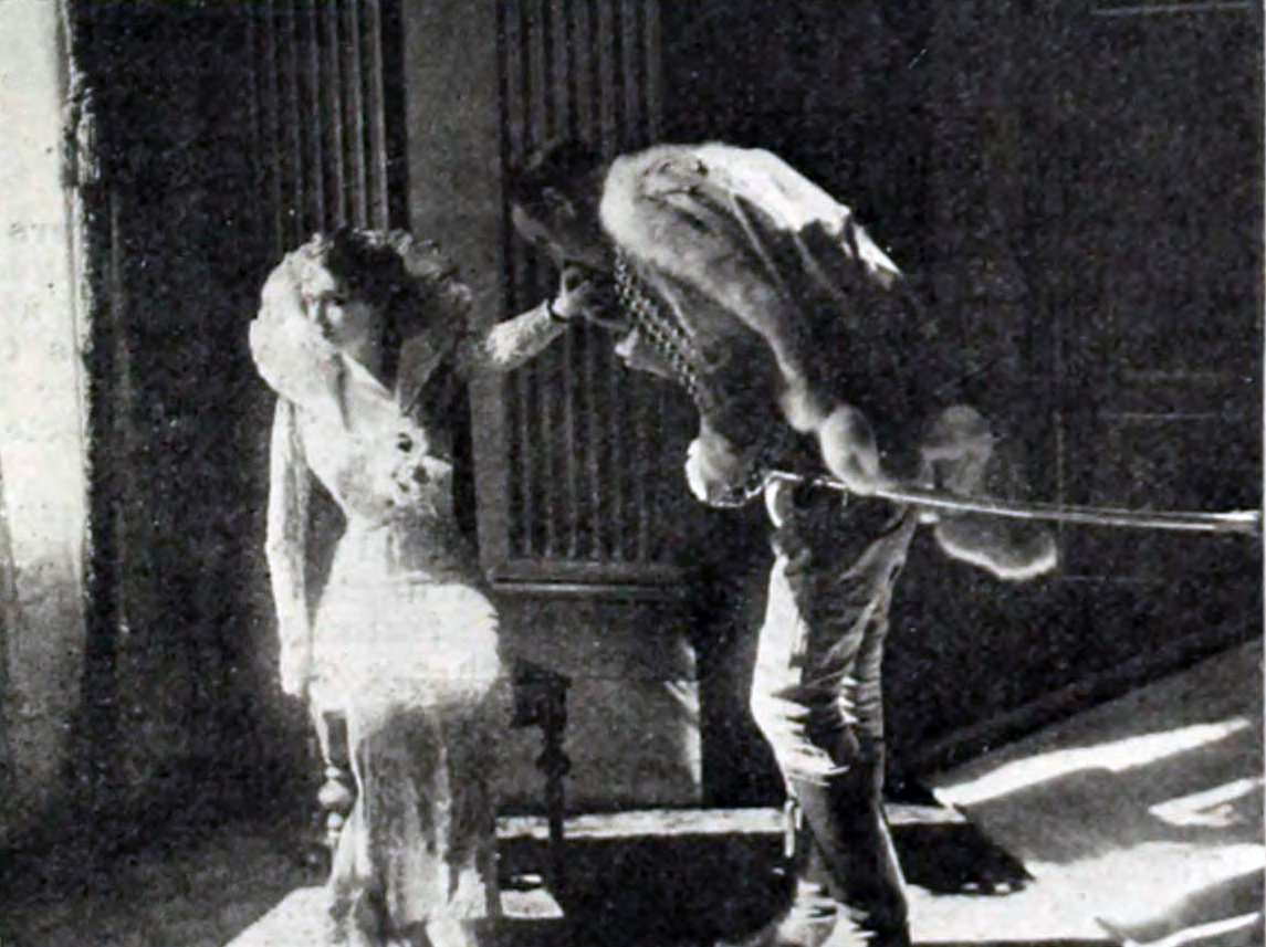 Illustration of a review in The Moving Picture World for the American film The Eternal Question (1916).